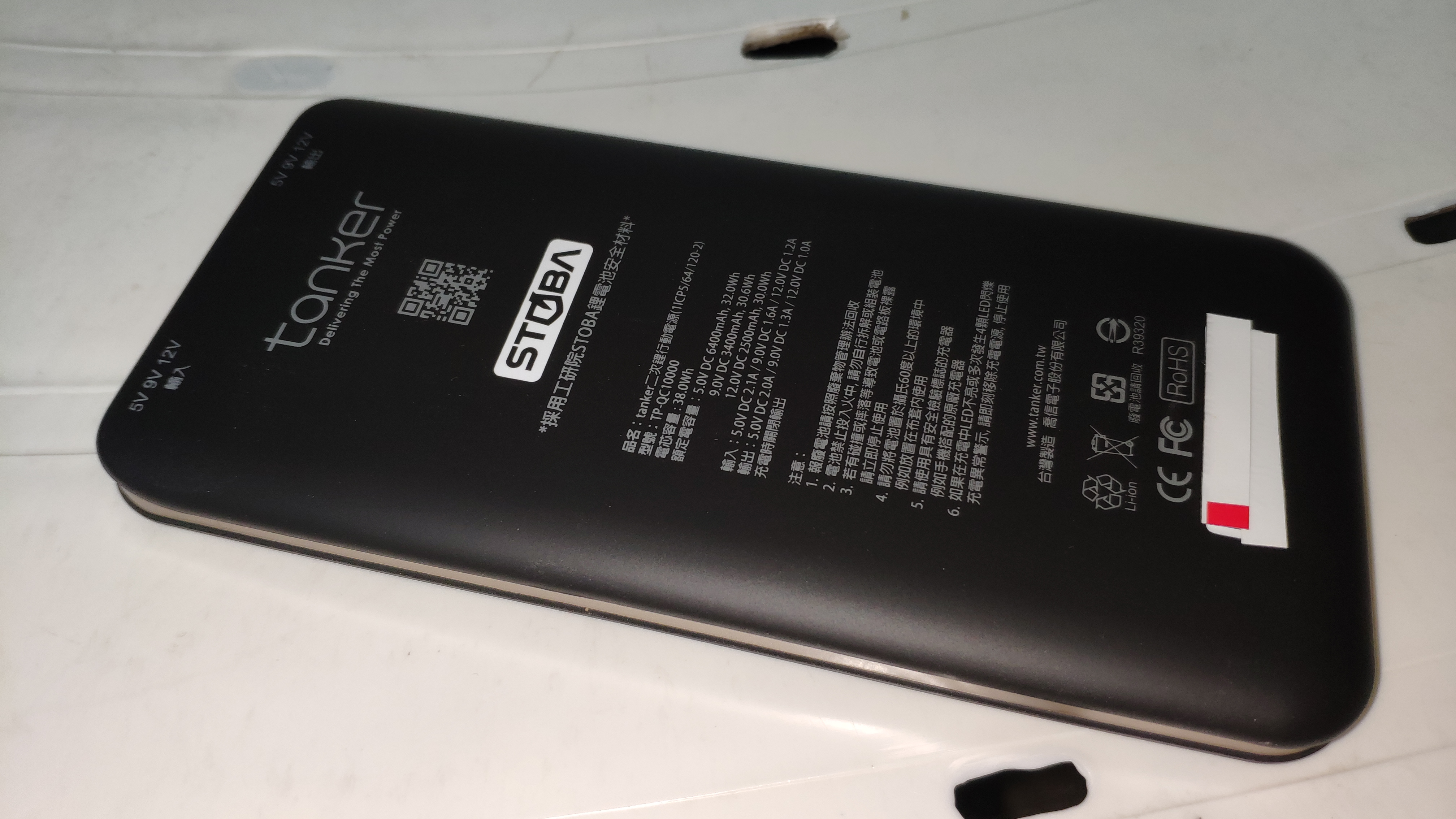 tanker Power bank 10000mAh with ITRI's STOBA (Self-Terminated Oligomers with hyper-Branched Architecture).